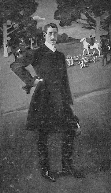 self portrait of German painter August Neven du Mont (1866–1909)